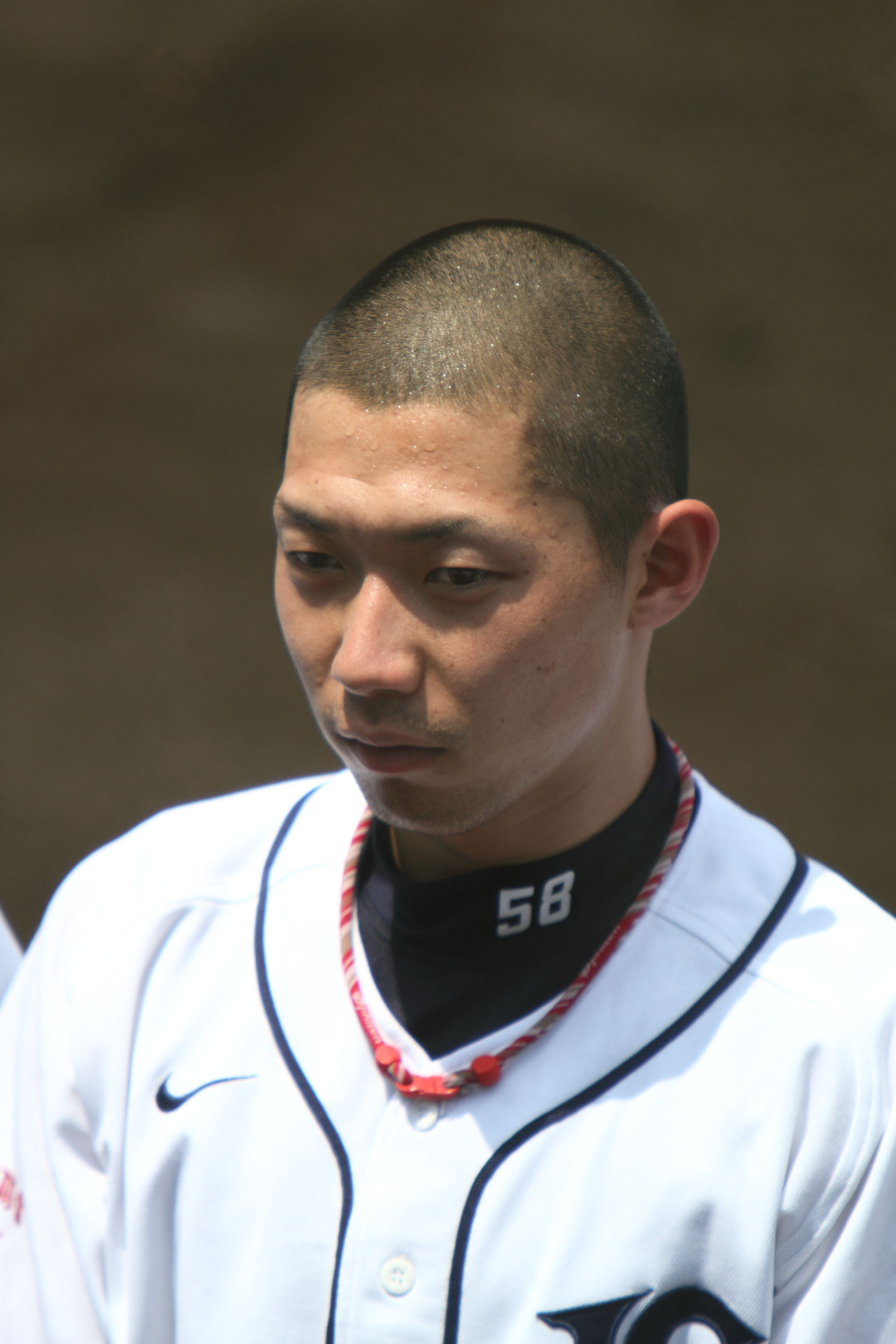 Masato Kumashiro, outfielder of the Saitama Seibu Lions, at Seibu Baseball Ground II.